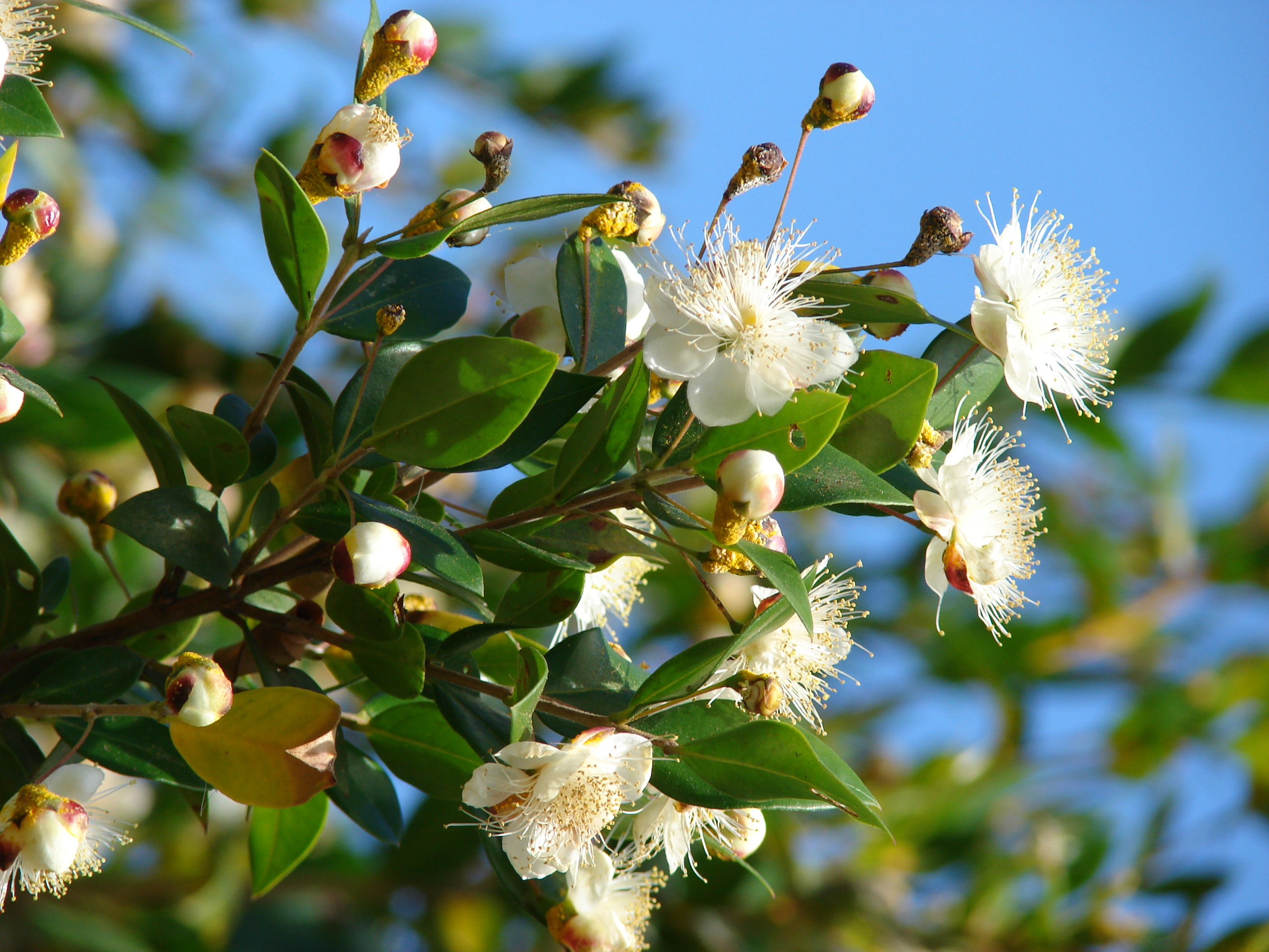 Myrtus communis (flowers with Puccinia psidii). Location: Maui, Lower Kimo Rd Kula